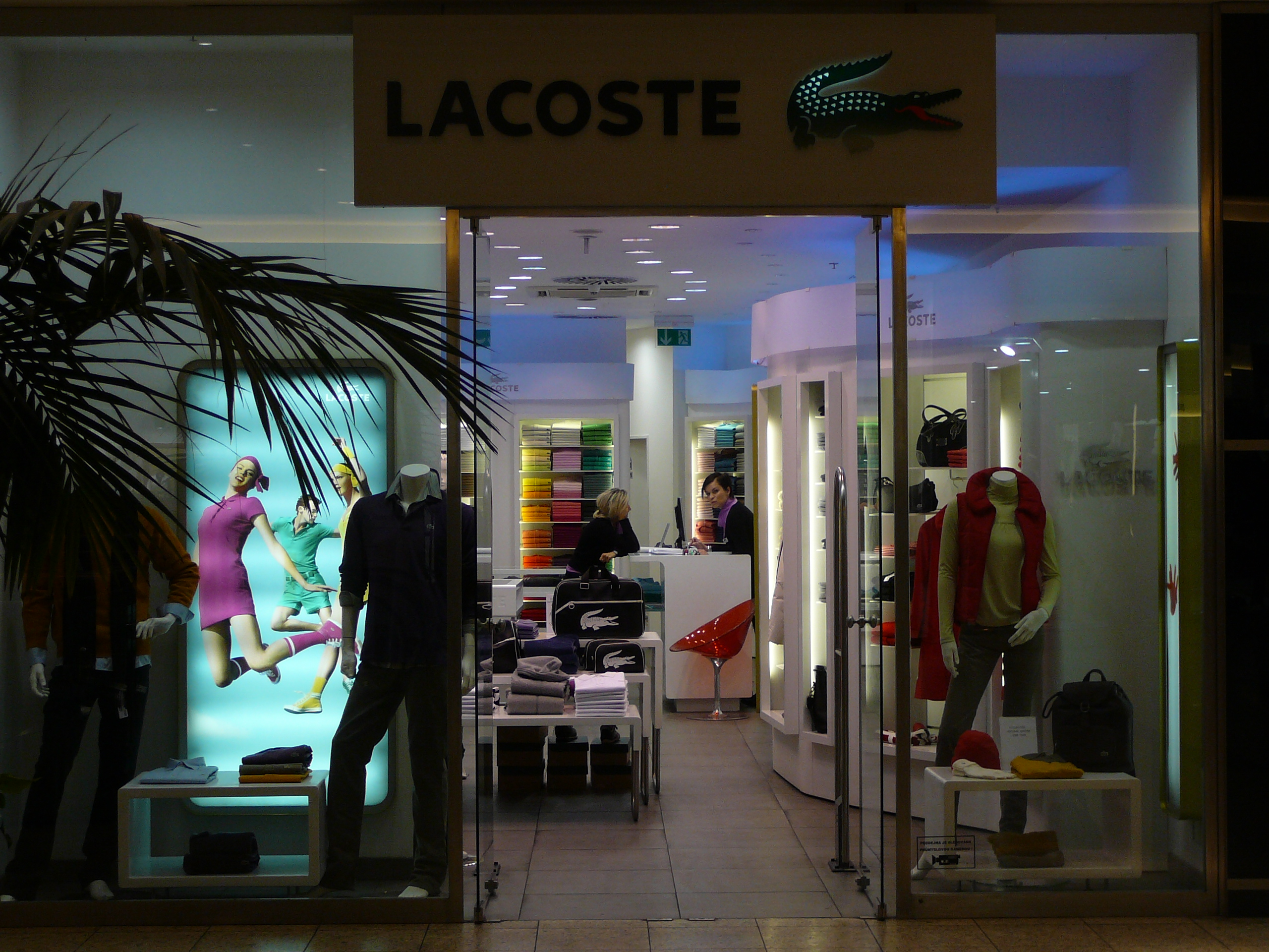 Lacoste in Vaňkovka in Brno